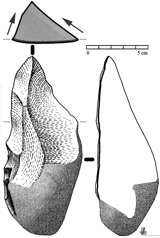 Acheulean trihedral pick that proceeds from a superficial site in the Zamora province (Spain), in the valley of Douro river.